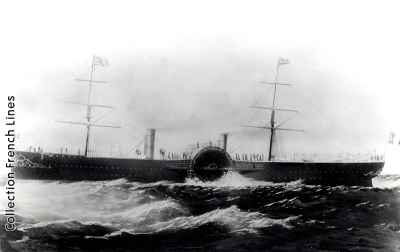 Black and white image of Napoleon III.